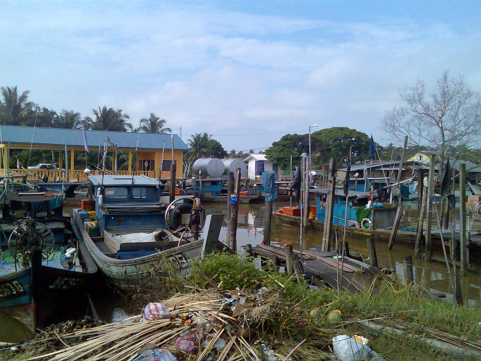 TITLE：PARIT JAWA FISH VILLAGE DATE：2007 AUTHOR：LIM THIAM POH